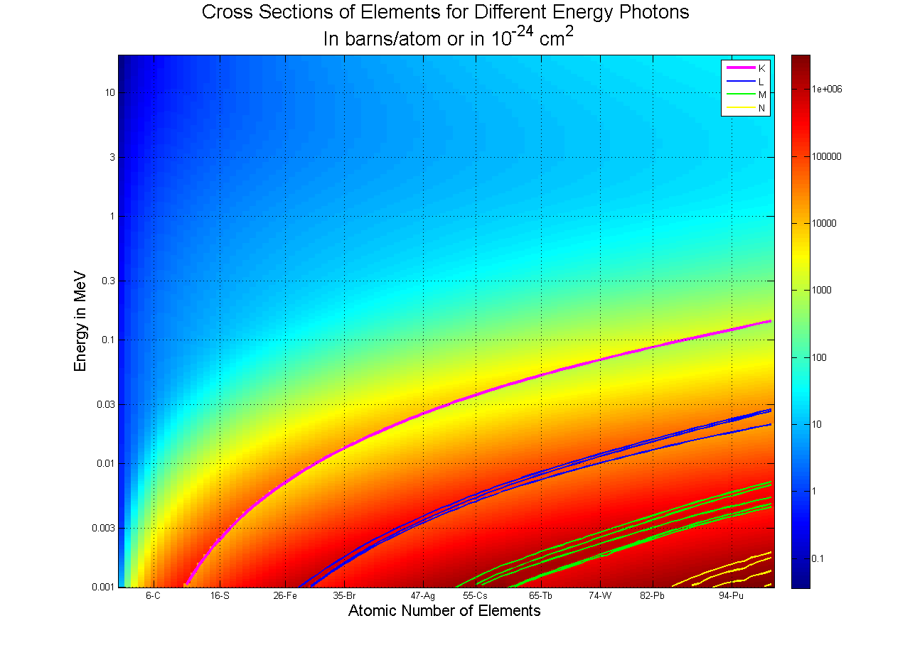 Cross-sections for photons in energy range from 1 keV to 20 MeV for Elements Z = 1 to 100. Based on [1]. Also shown are locations of photons absorption edges (and not Compton edges as mentioned in the comments from the Matlab code).